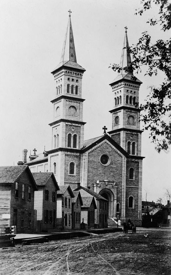 Church of the Assumption